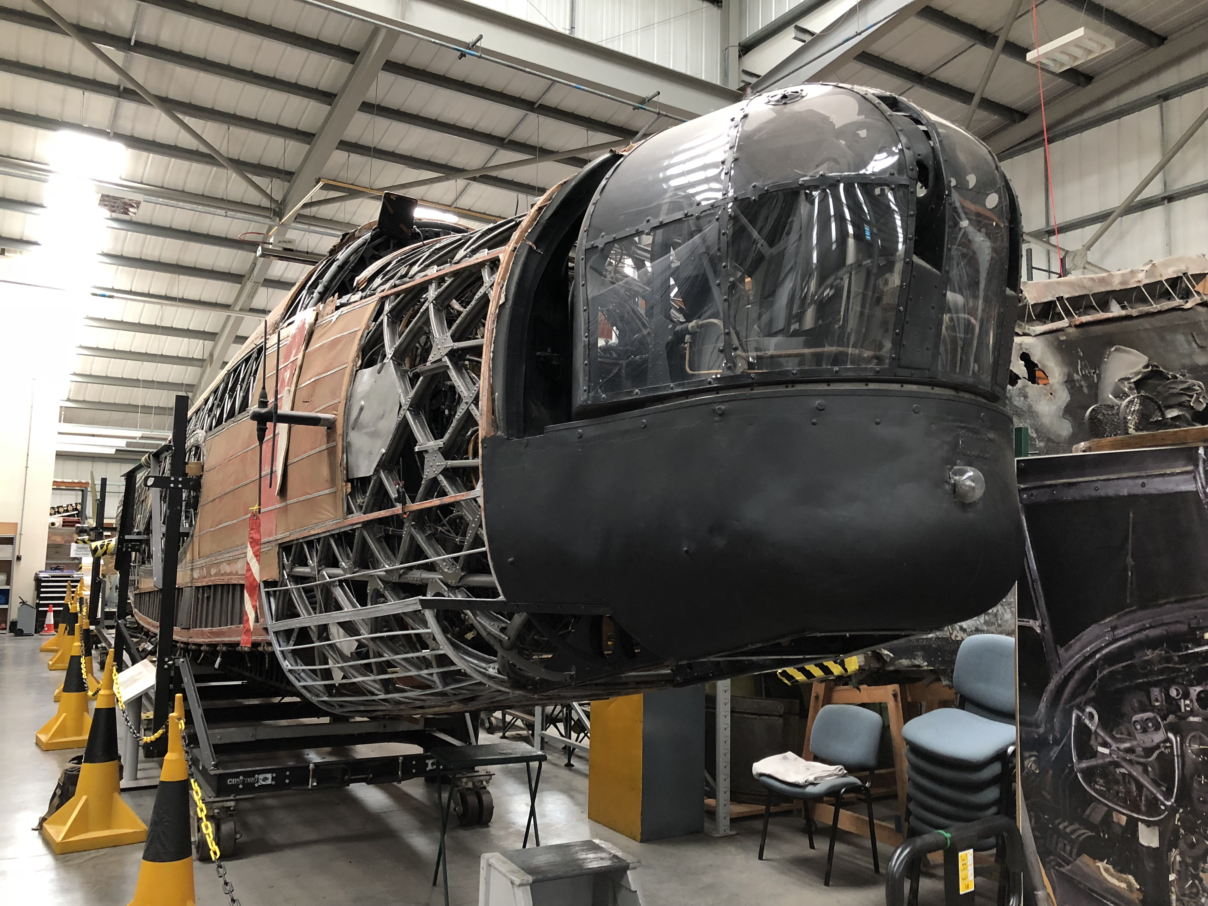 Vickers Wellington T.10 bomber serial number MF628 undergoing restoration at RAF Cosford, Donington, UK in 2018